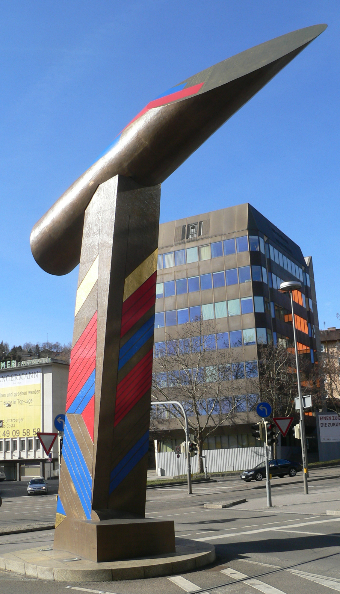 Wegzeichen Nr. 1 by Otto Herbert Hajek, 1998/1999. Stuttgart, Germany, near main station